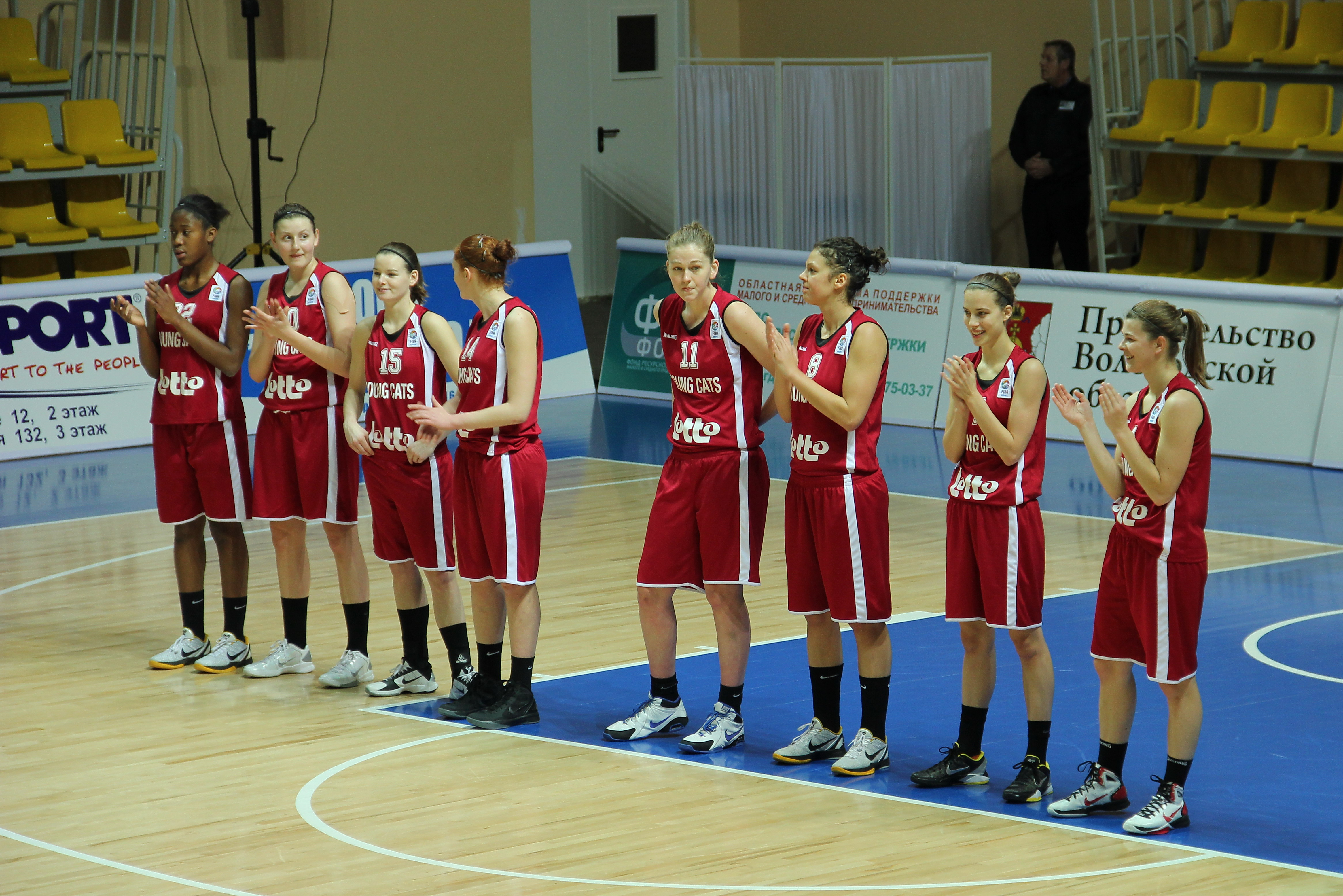 Women's basketball club «Lotto Young Cats» (Belgium)